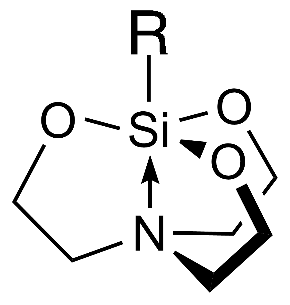 Skeletal structure of a silatrane with a generic "R" group.